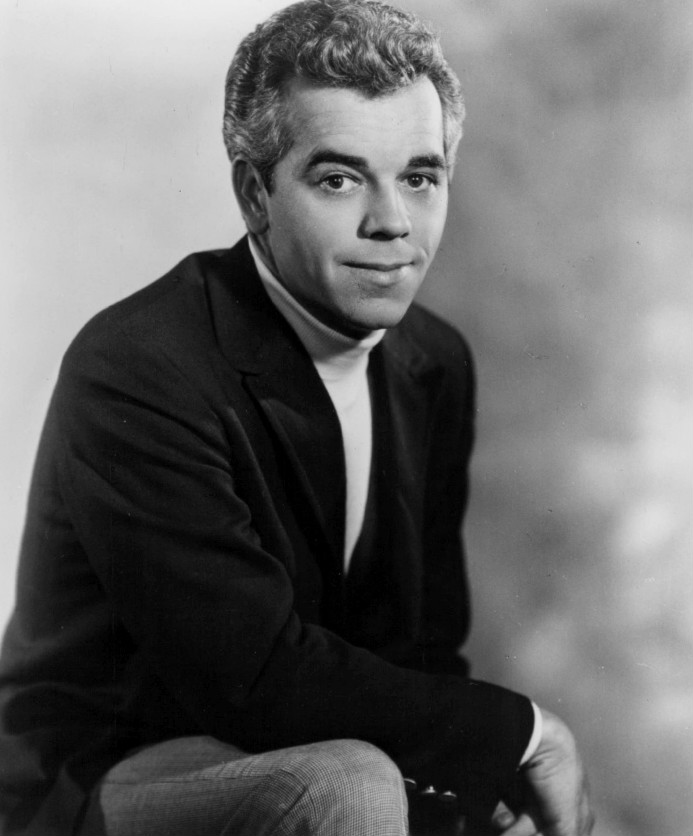 Photo of singer Roy Drusky.